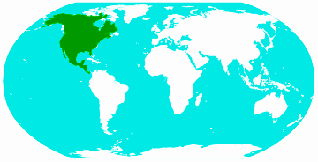 Locator map of the North American continent (no islands)